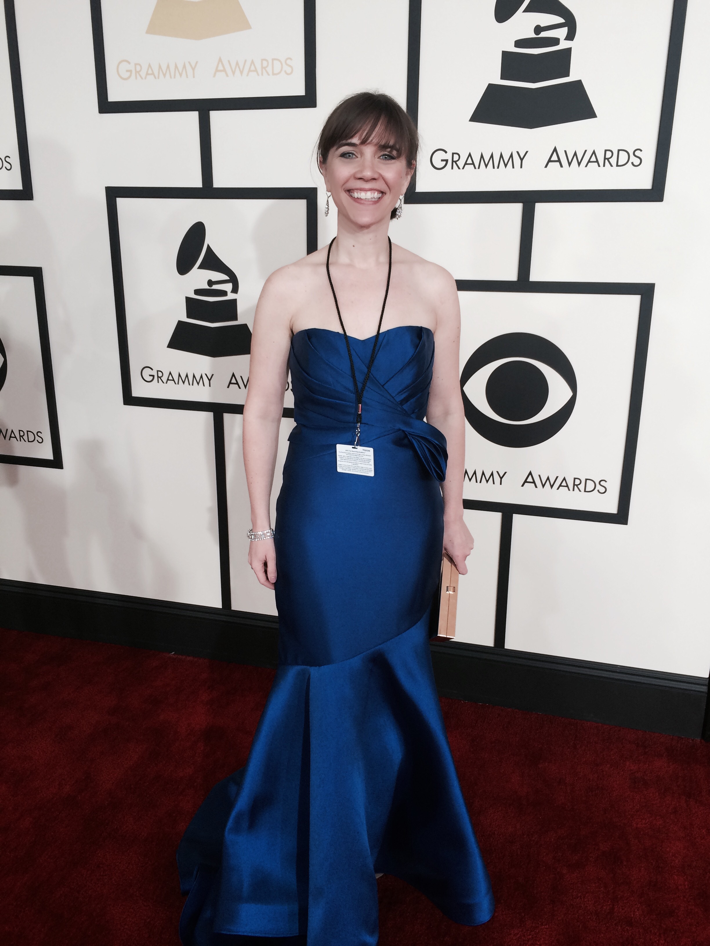 Patricia Price at the 2015 Grammy's